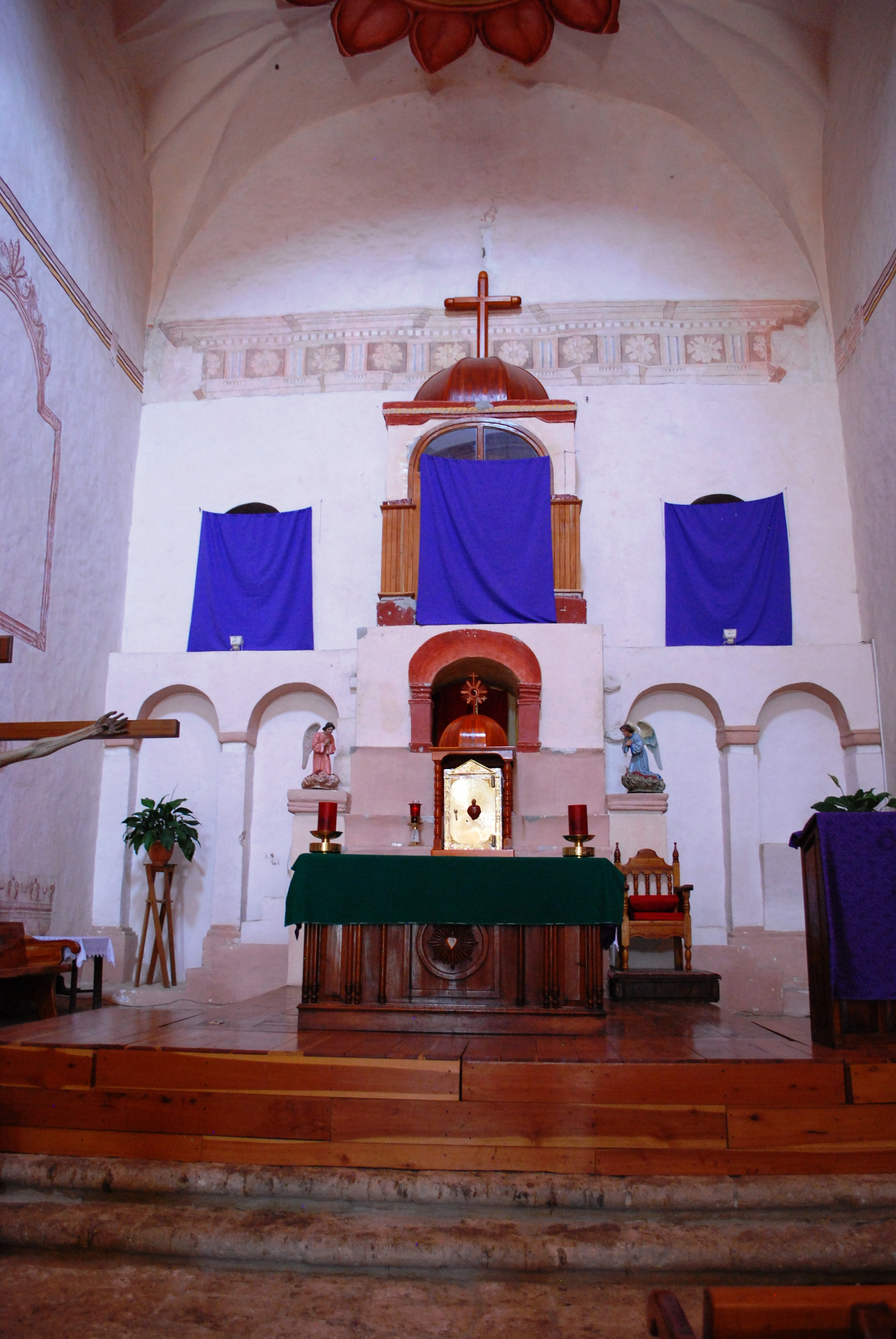 Main altar area of the mission church in Tancoyol, Jalpan de Serra, Querétaro, Mexico. The images are covered for Lent.